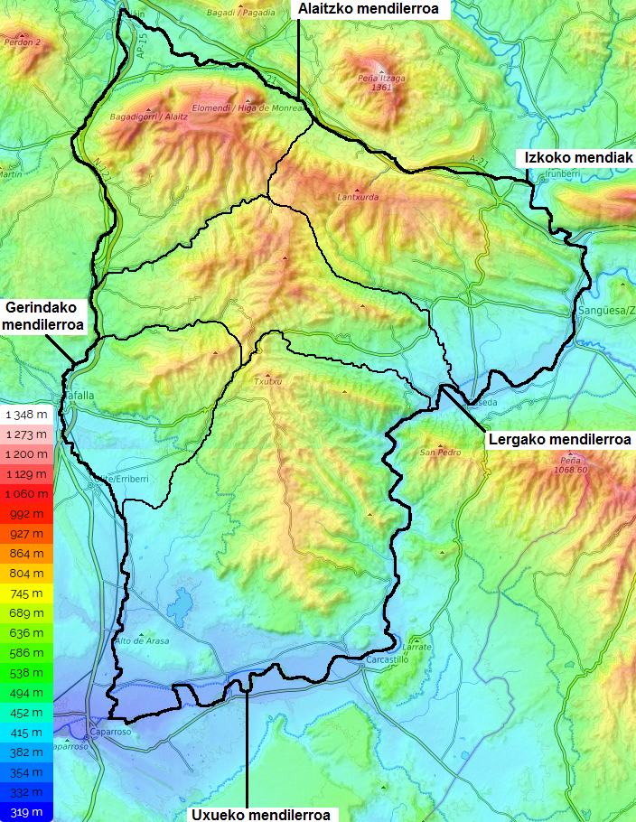 Topographic map showing the Alaitz, Izko, Lerga, Gerinda and Uxue Ranges.